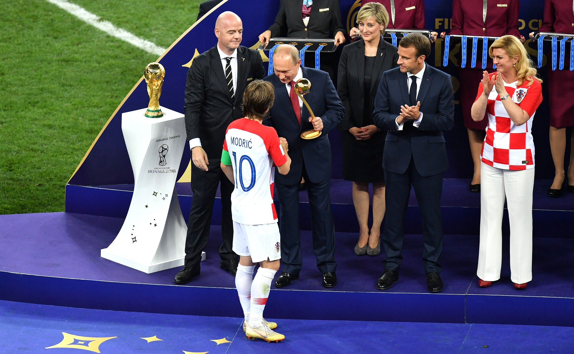 Luka Modrić receives the golden ball prize at the hands of Russian President Vladimir Putin